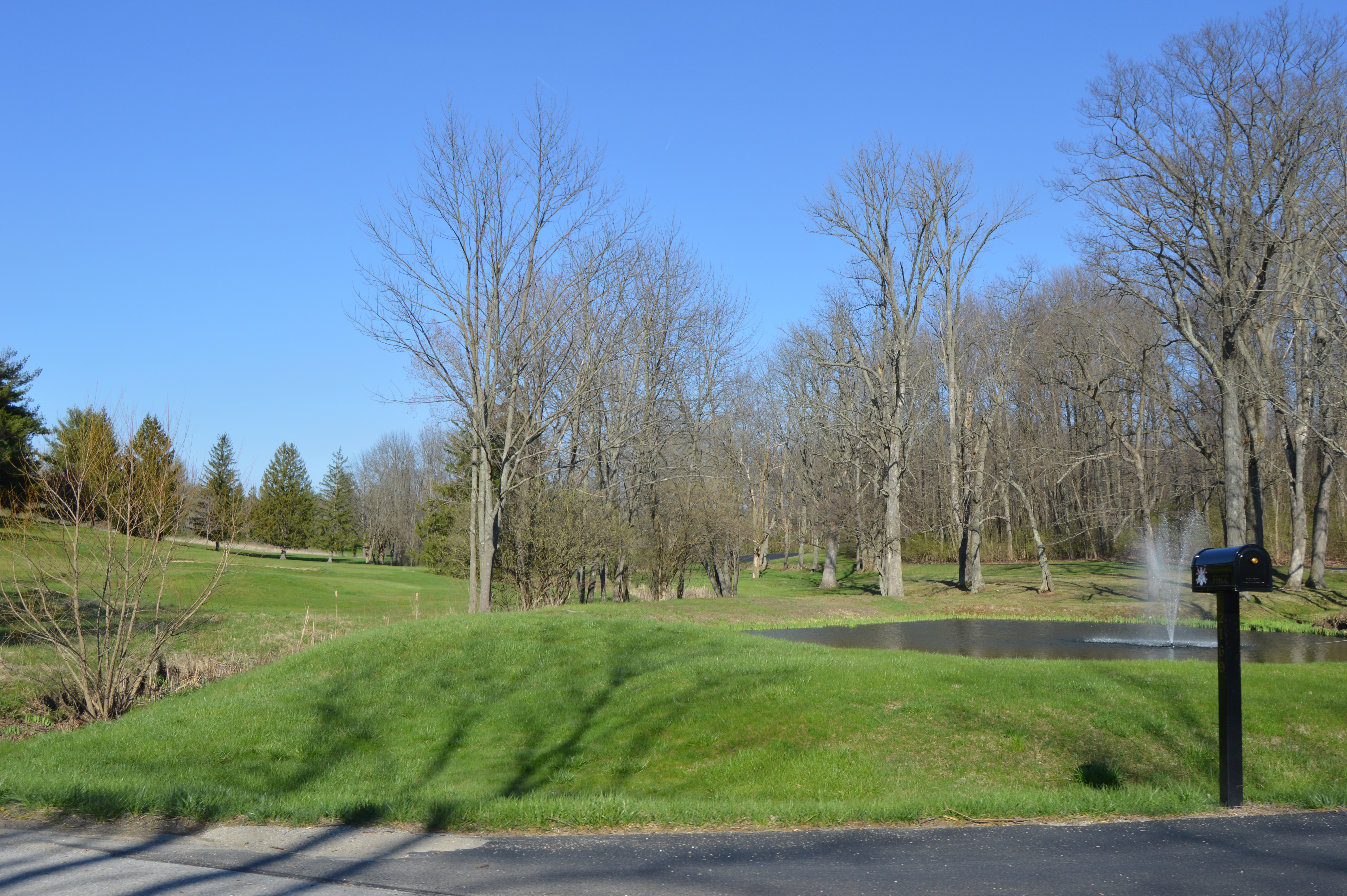 Open land by the entrance to the Forest Hills Country Club, located at 2169 S. Twenty-third Street southeast of Richmond in Wayne Township, Wayne County, Indiana, United States. The golf course is listed on the National Register of Historic Places.